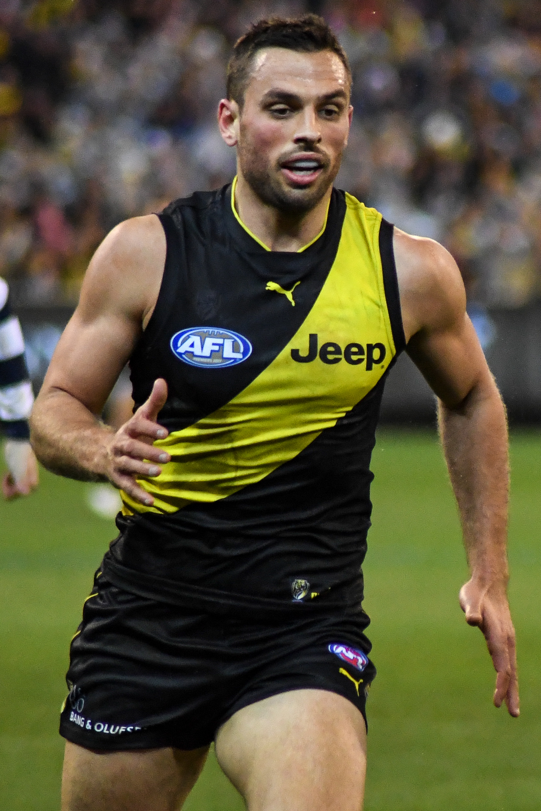 Sam Lloyd of Richmond during the 2018 AFL round 20 match between Richmond and Geelong at the Melbourne Cricket Ground on Friday, 3 August 2018 in Melbourne, Victoria.